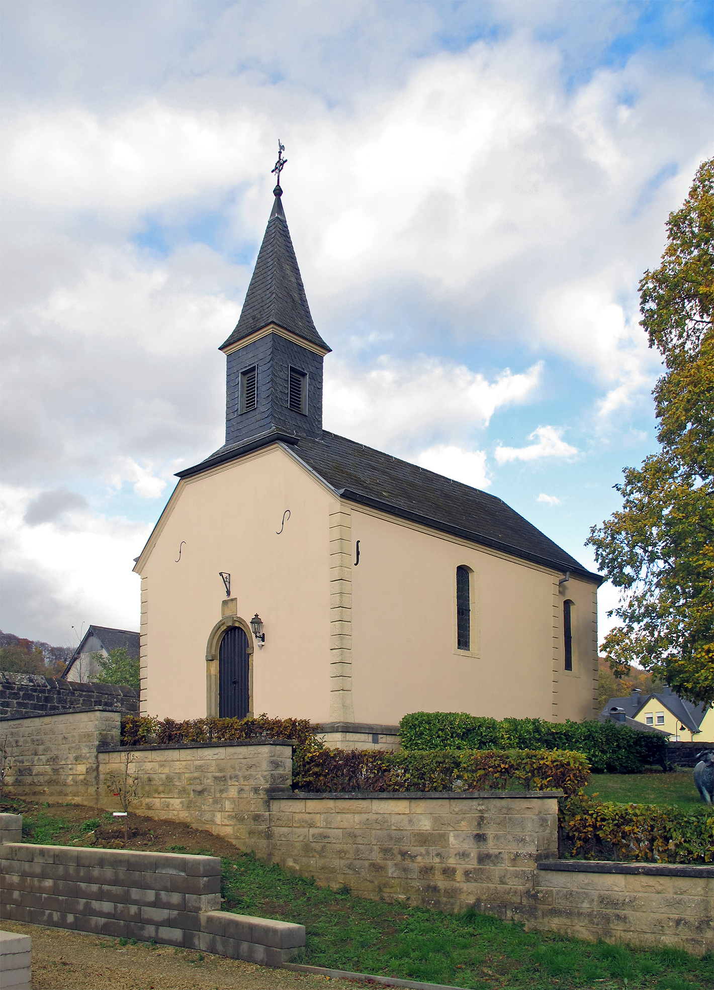 Chapel in Rippig, Luxembourg